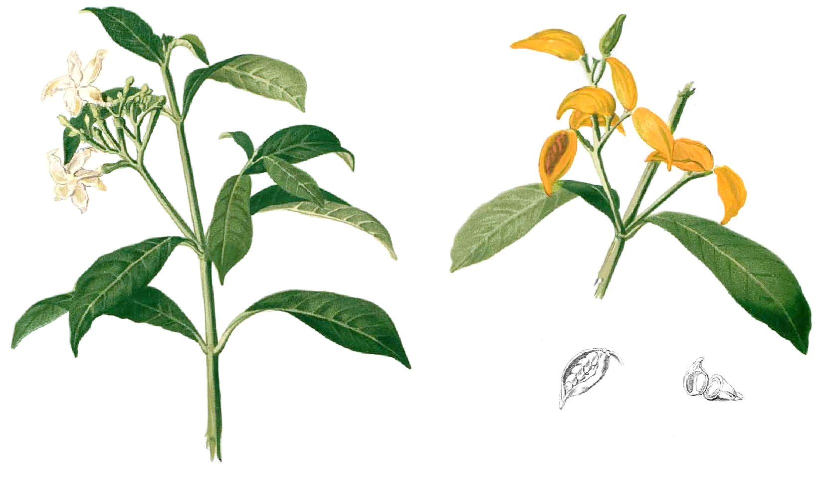 Plate from book